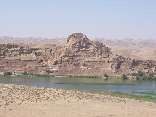 A river somewhere in Iraq